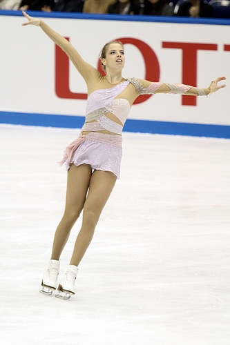 Carolina Kostner at the 2010 NHK Trophy.